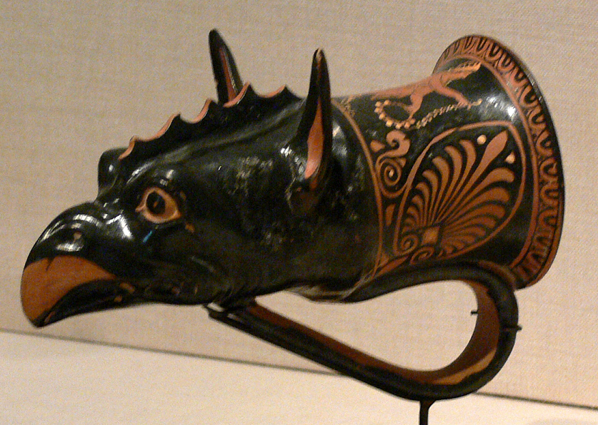 Rhyton in griffin form, Greek, Apulia, c. 350-300 BC; Ceramic Dallas Museum of Art, Dallas, Texas; anonymous loan; object number 62.2009.3